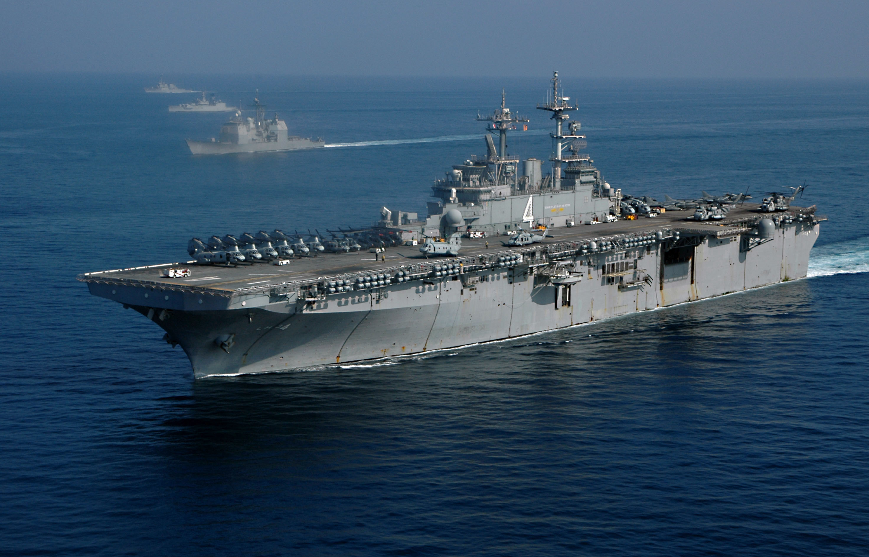 Arabian Sea (Nov. 05 2006) - USS Boxer (LHD 4) and ships assigned to Boxer Expeditionary Strike Group (BOXESG) steam alongside while transiting to U.S. 5th Fleet's area of responsibility. 5th Fleet, headquartered in Manama, Bahrain, is responsible for a sea encompassing about 2.5 million square miles of water including the Persian Gulf, Arabian Sea, Red Sea, Gulf of Aden, Gulf of Oman, and parts of the Indian Ocean. U.S. Navy photo by Mass Communication Specialist Seaman Paul Polach (RELEASED)